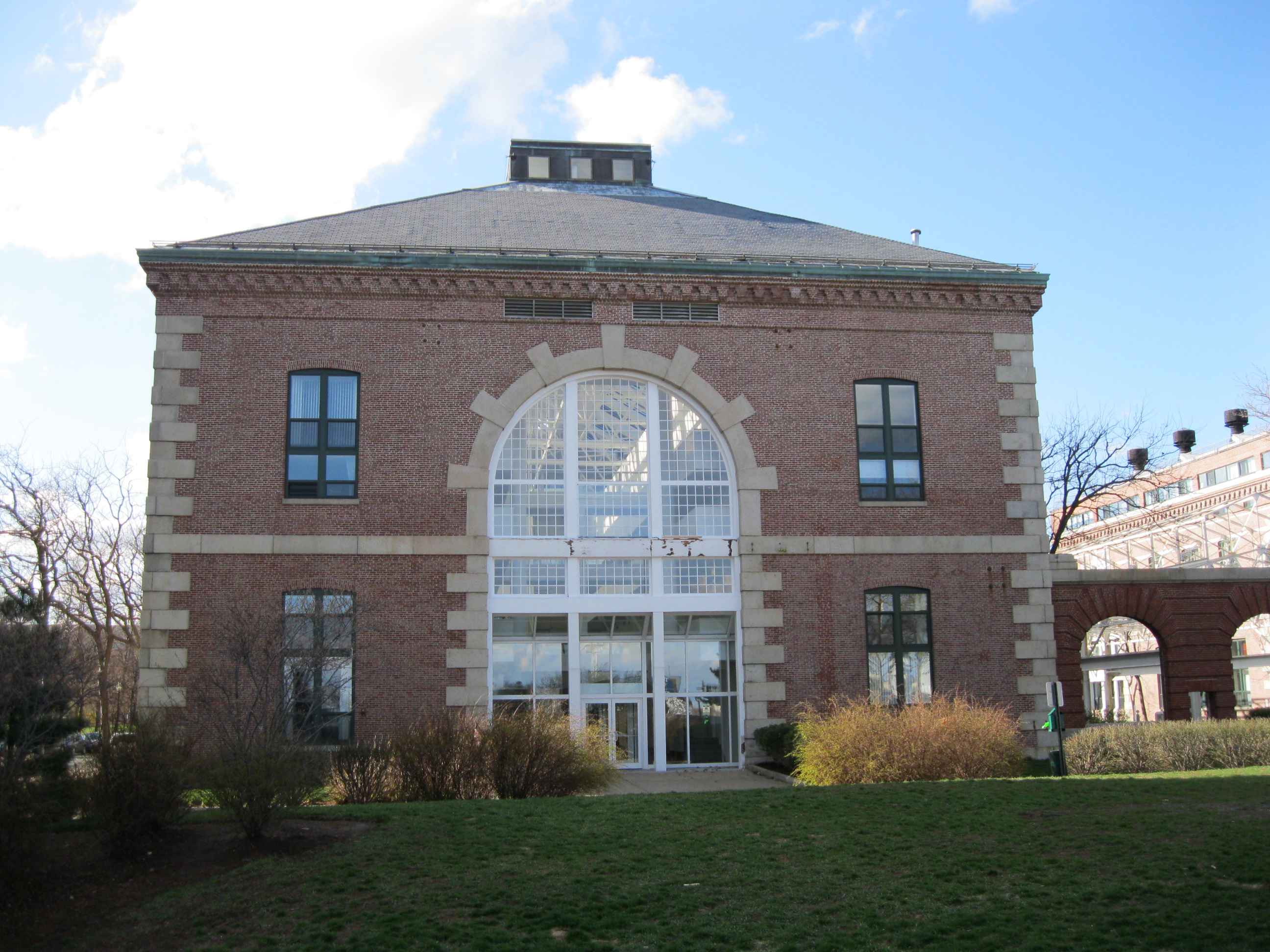 Boston Navy Yard, Charlestown MA 02129